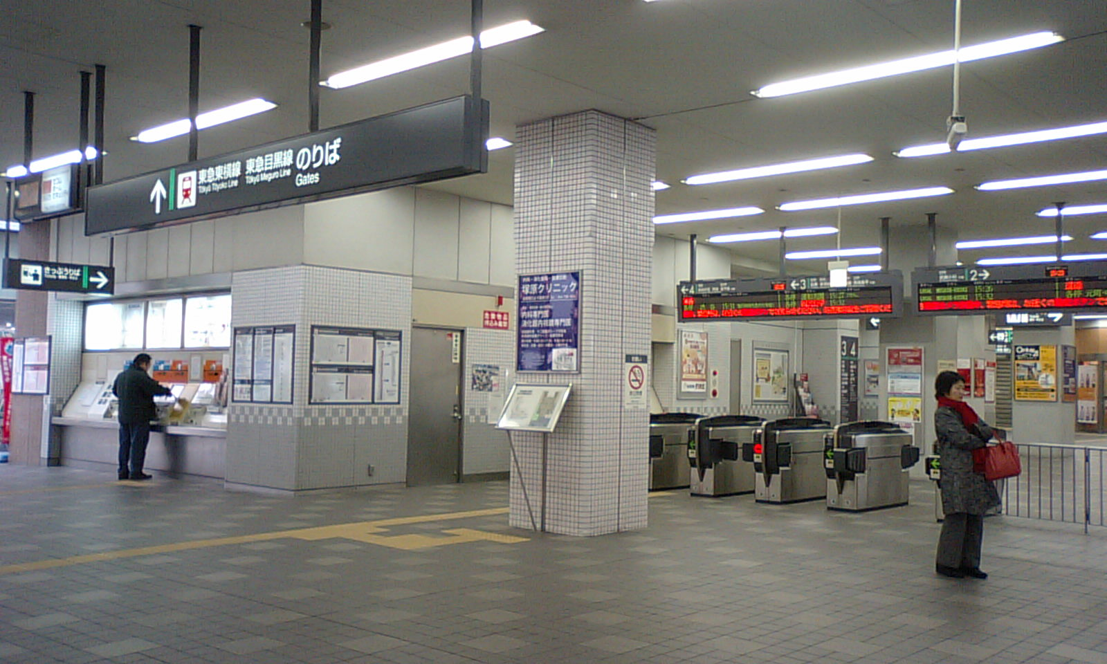 Tokyu Toyoko Line and Meguro Line Shinmaruko sta. ticket gate.